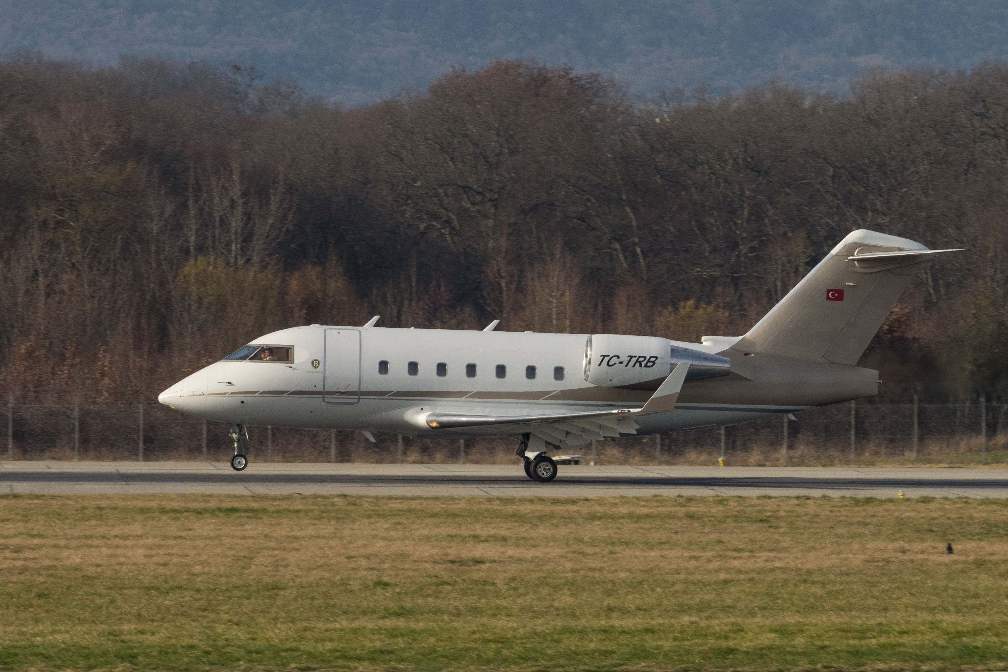 GVA 06.02.2016